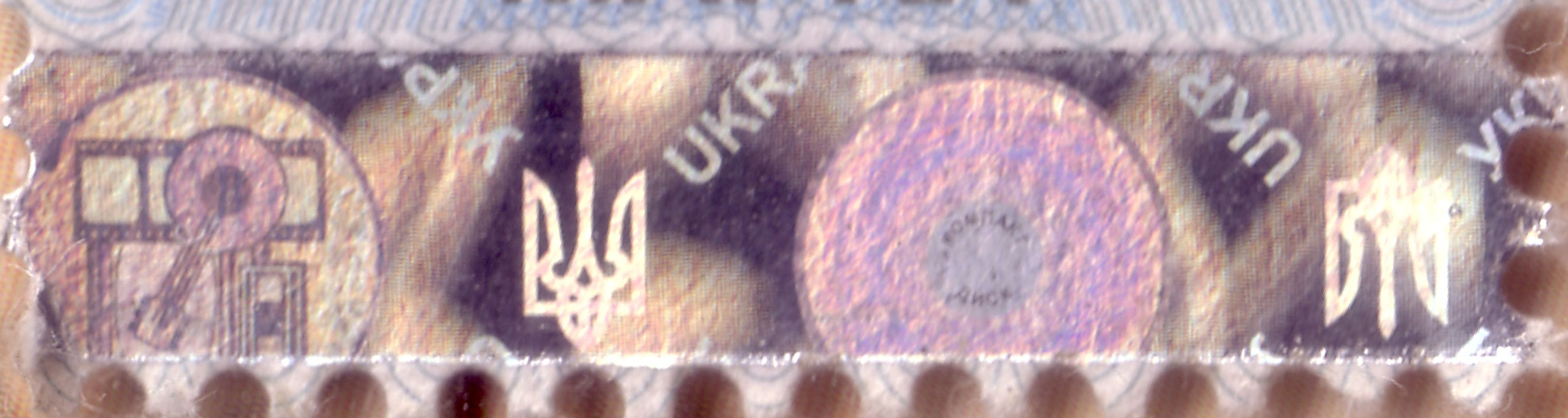 Gologram Excise Stamp of Ukraine, 1997?